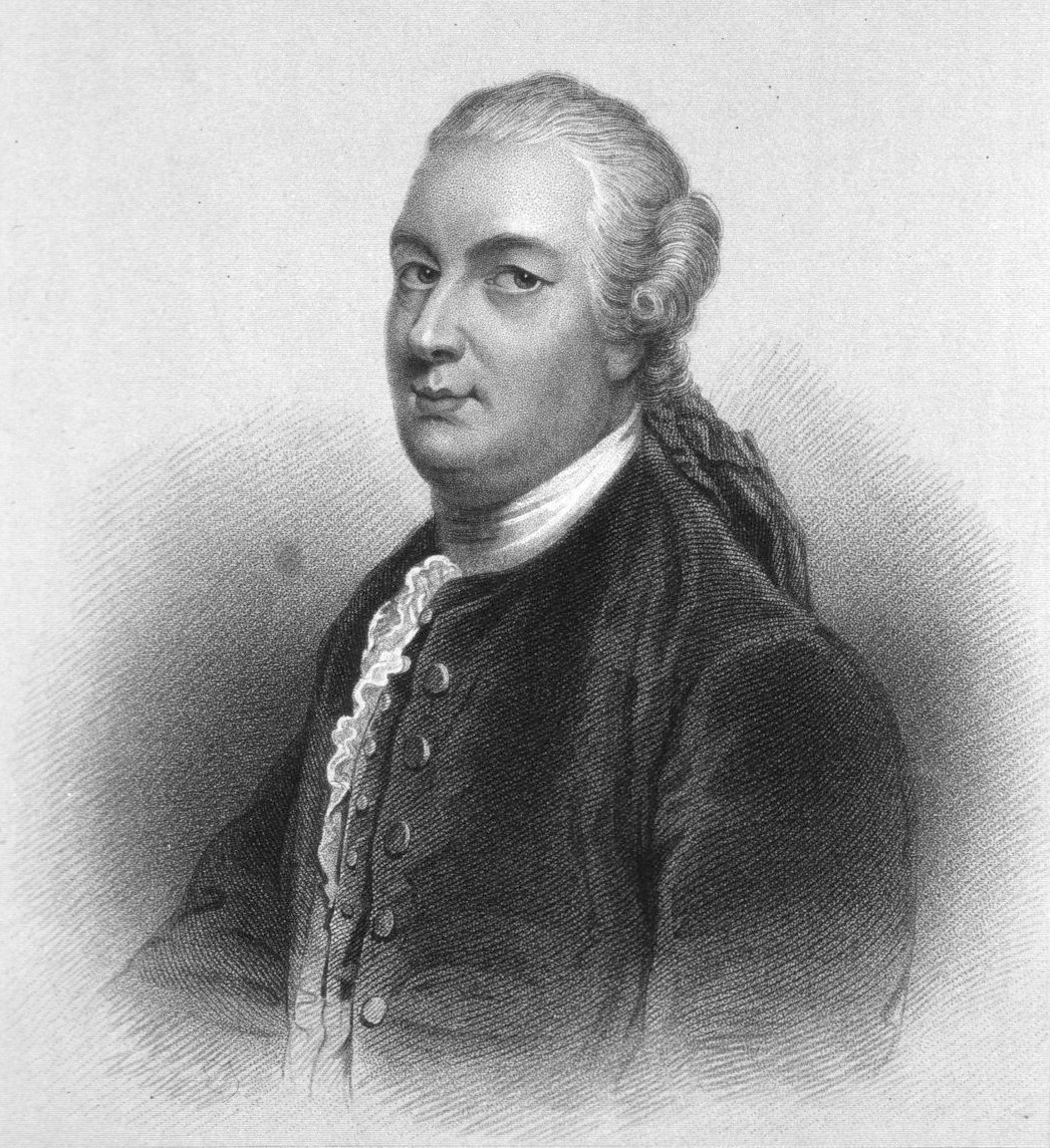 James Bruce, Scottish explorer who traced the origins of the Blue Nile